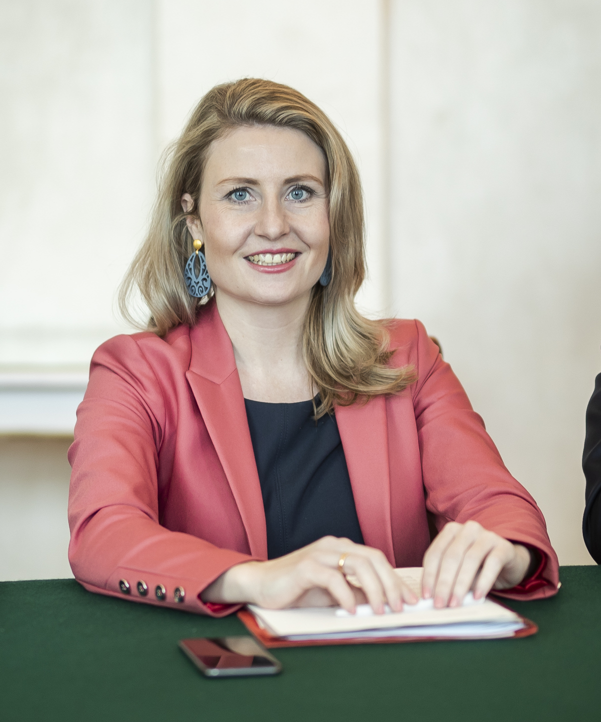 Fotocredit: BKA